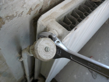 Undo the union nut of the valve.